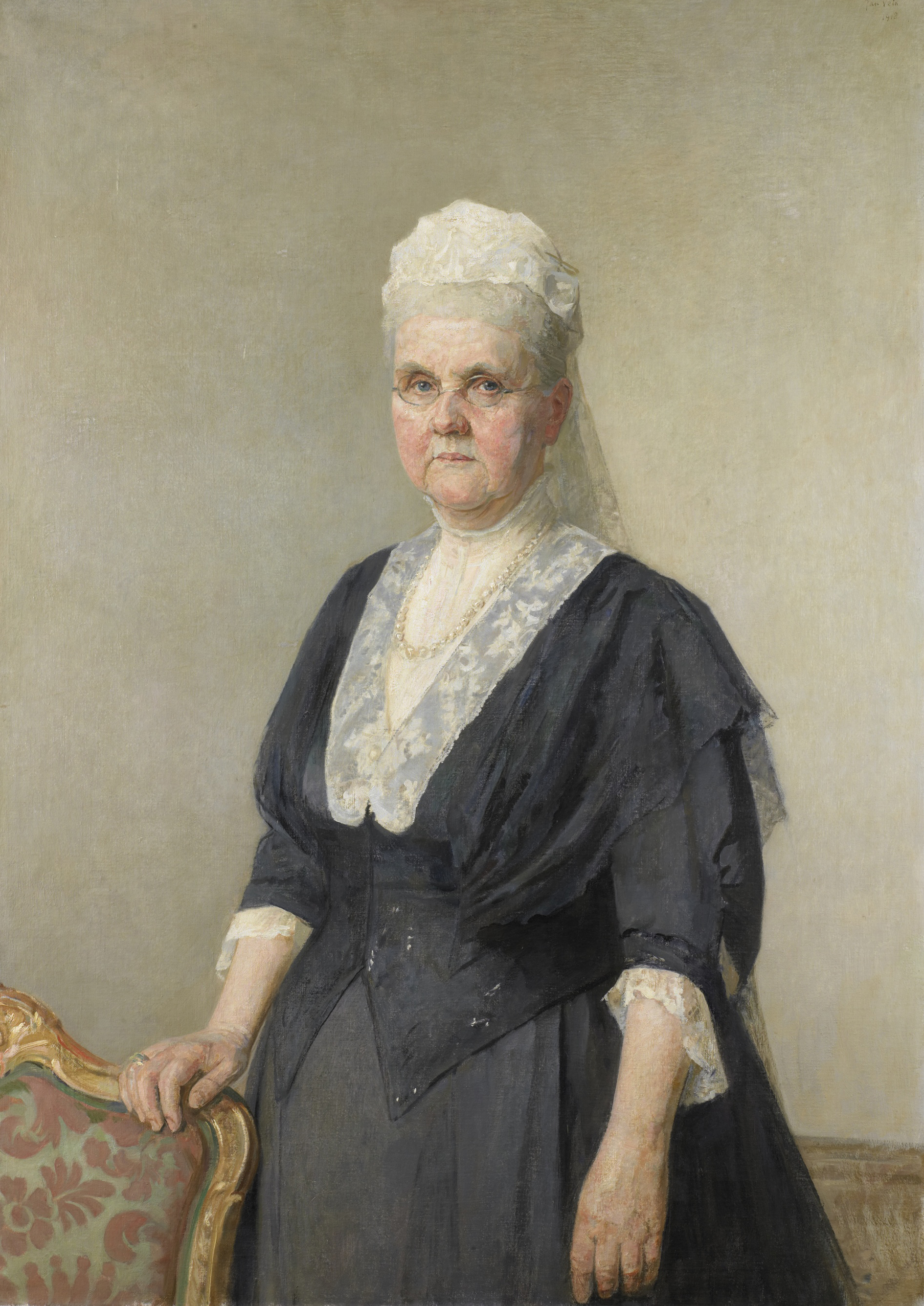 Portrait of Emma of Waldeck and Pyrmont at half-length, standing, facing left, looking at the viewer.